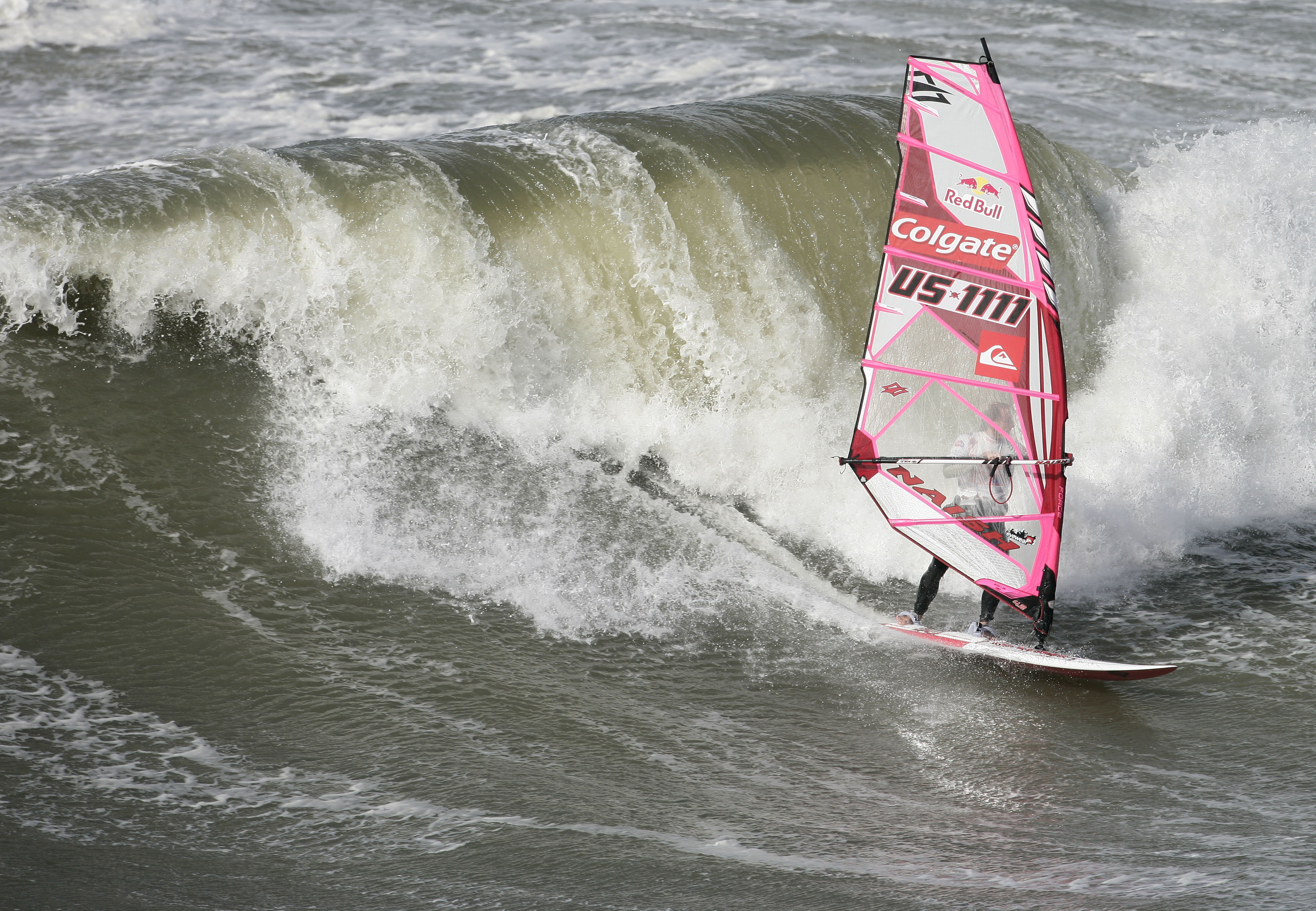 Robby Naish, Expression Session, Windsurf World Cup Sylt 2009